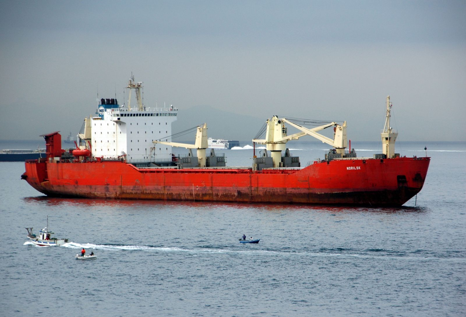 MV Norilsk (IMO 8013003), the first SA-15 class arctic cargo ship, off Gibraltar on 19 May 2009.